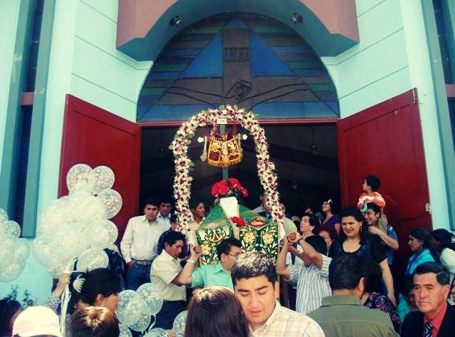 Employer image Saucepampa district, province of Santa Cruz, Cajamarca department